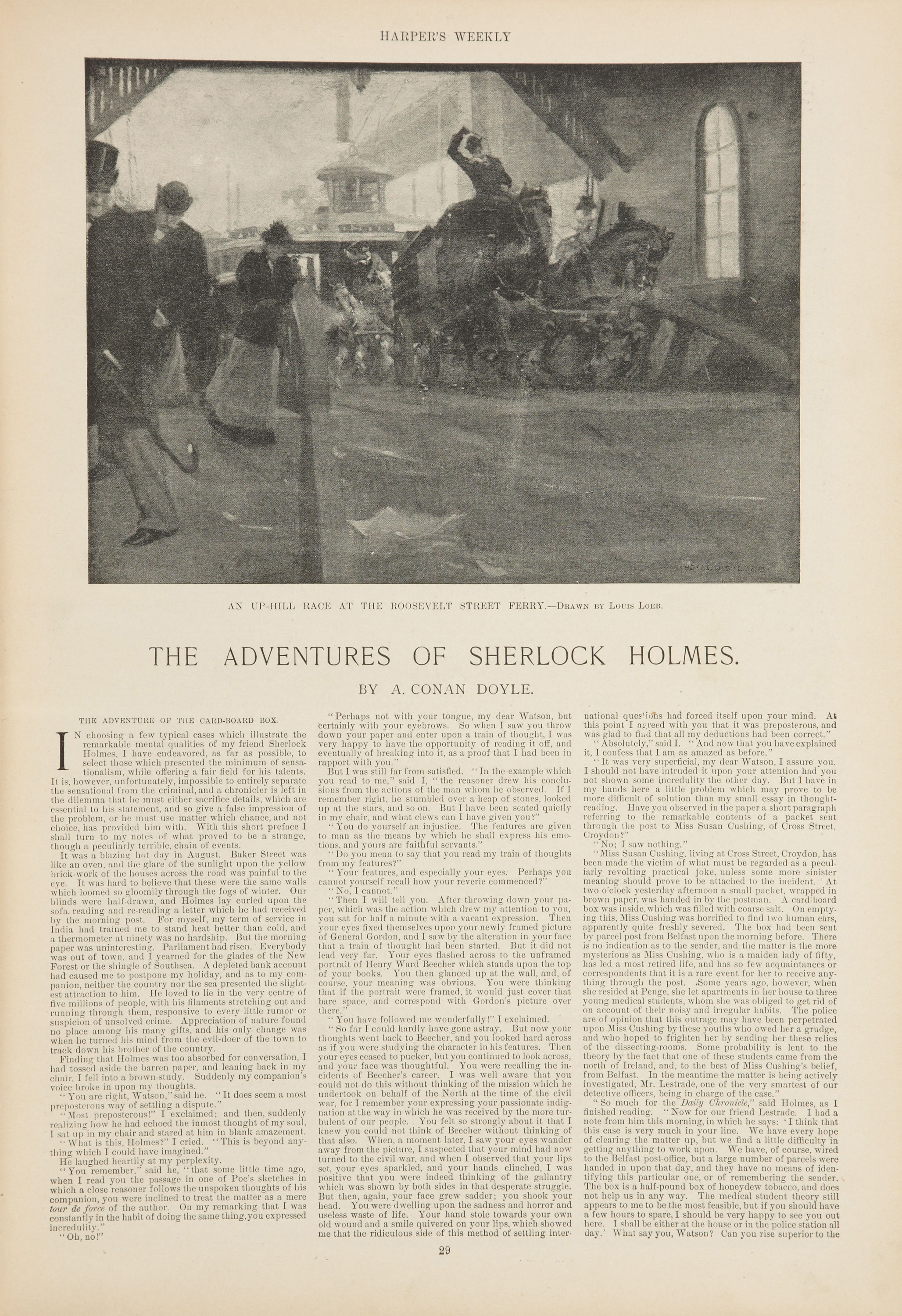 First page of the U.S. printing of "The Adventure of the Cardboard Box" in Harper's Weekly, January 14, 1893 (page 29)